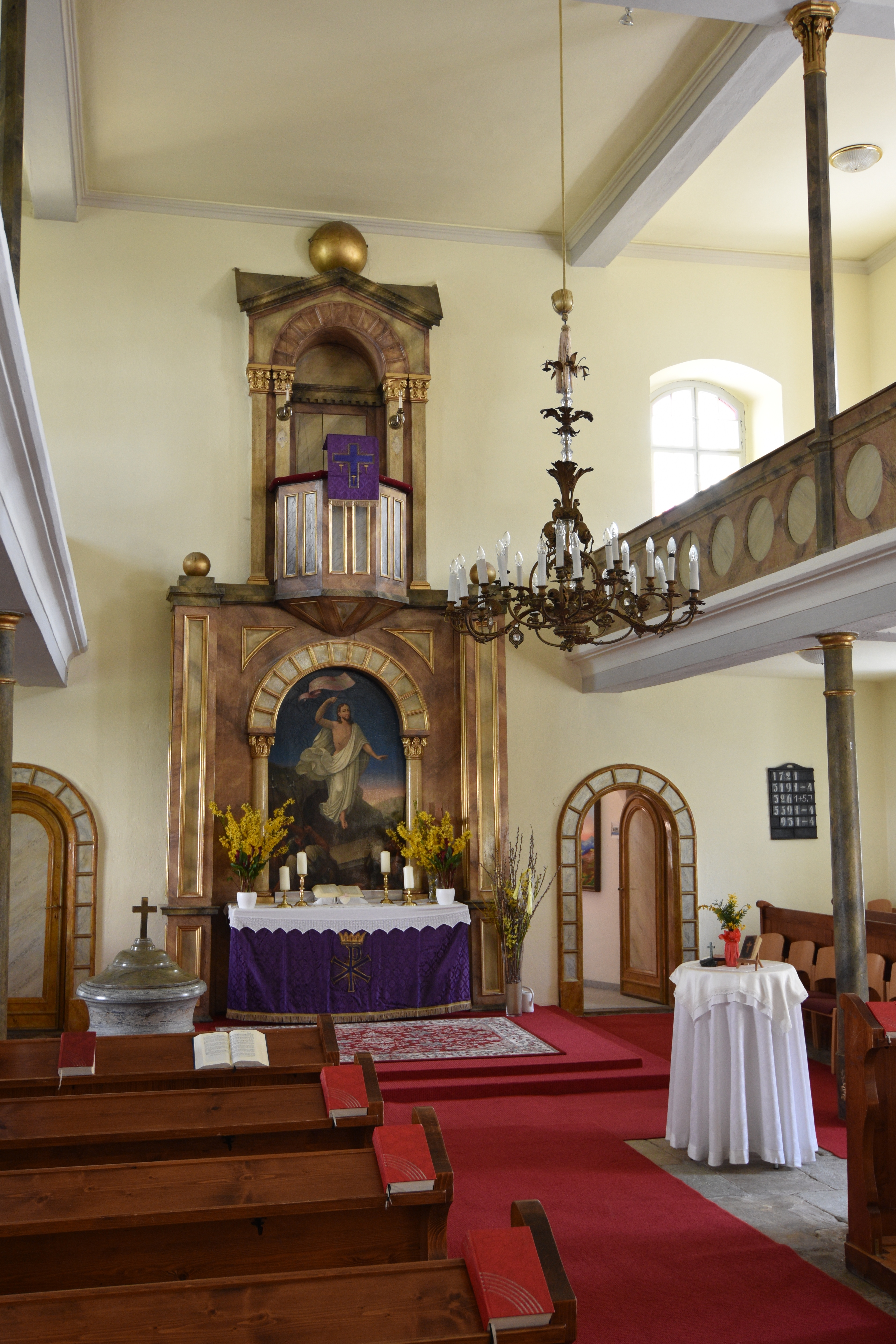 Church Bernstein im Burgenland - Interior